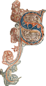 The letter S from the Sheep Letter for the Faroe Islands of 24 June 1298, in the "Book of Lund". Føroyskt: Bókstavurin S frá File:Sheep Letter, p 1.jpg